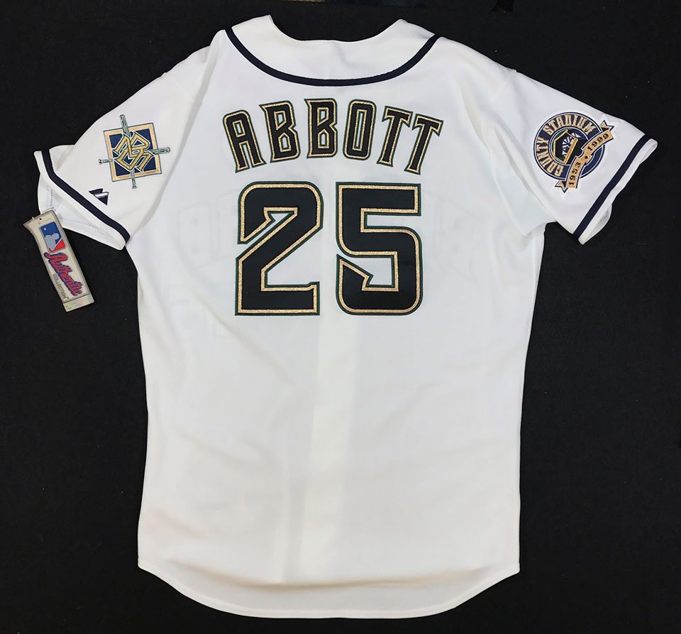 1999 Milwaukee Brewers #25 Jim Abbott home jersey lettered and photographed by William F. Henderson. To contact me, go to my website